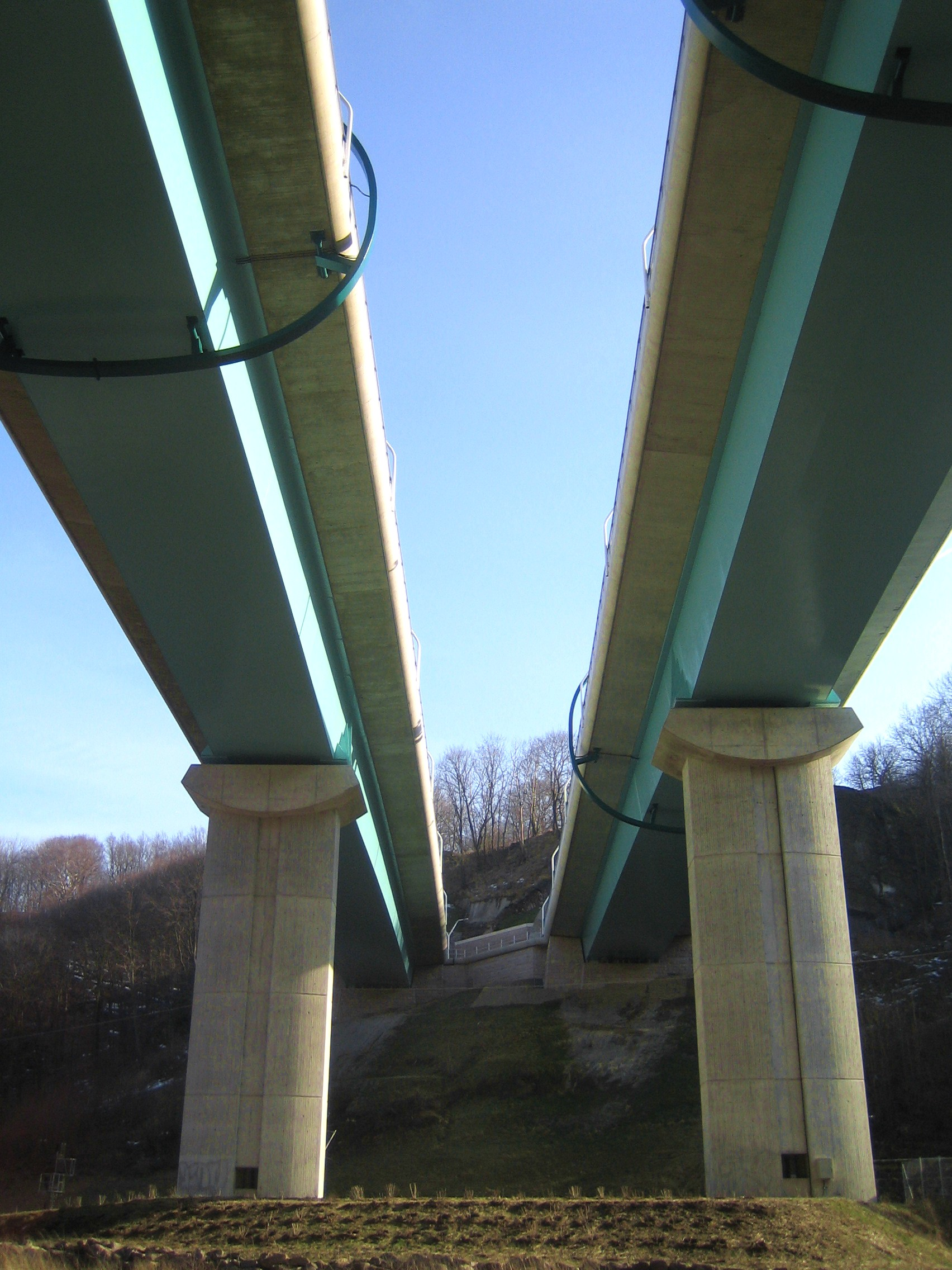 Weißeritz-Valley-Bridge of the german Autobahn 17